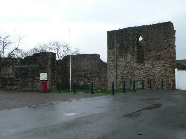 Monmouth Castle Ruins The first castle was built in Monmouth by William Fitz Osburn in the late 11th century. It was probably a wooden building and it was replaced by stone buildings in the 13th century. We see hear the Great Tower to the right and the remains of the Great Hall to the left.